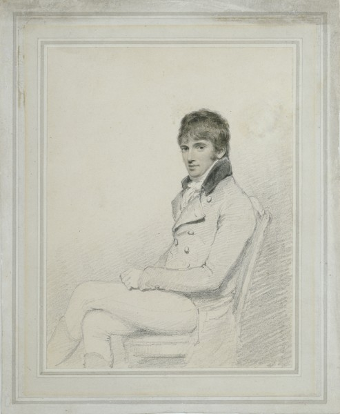 Portrait of William Daniell (1769–1837).